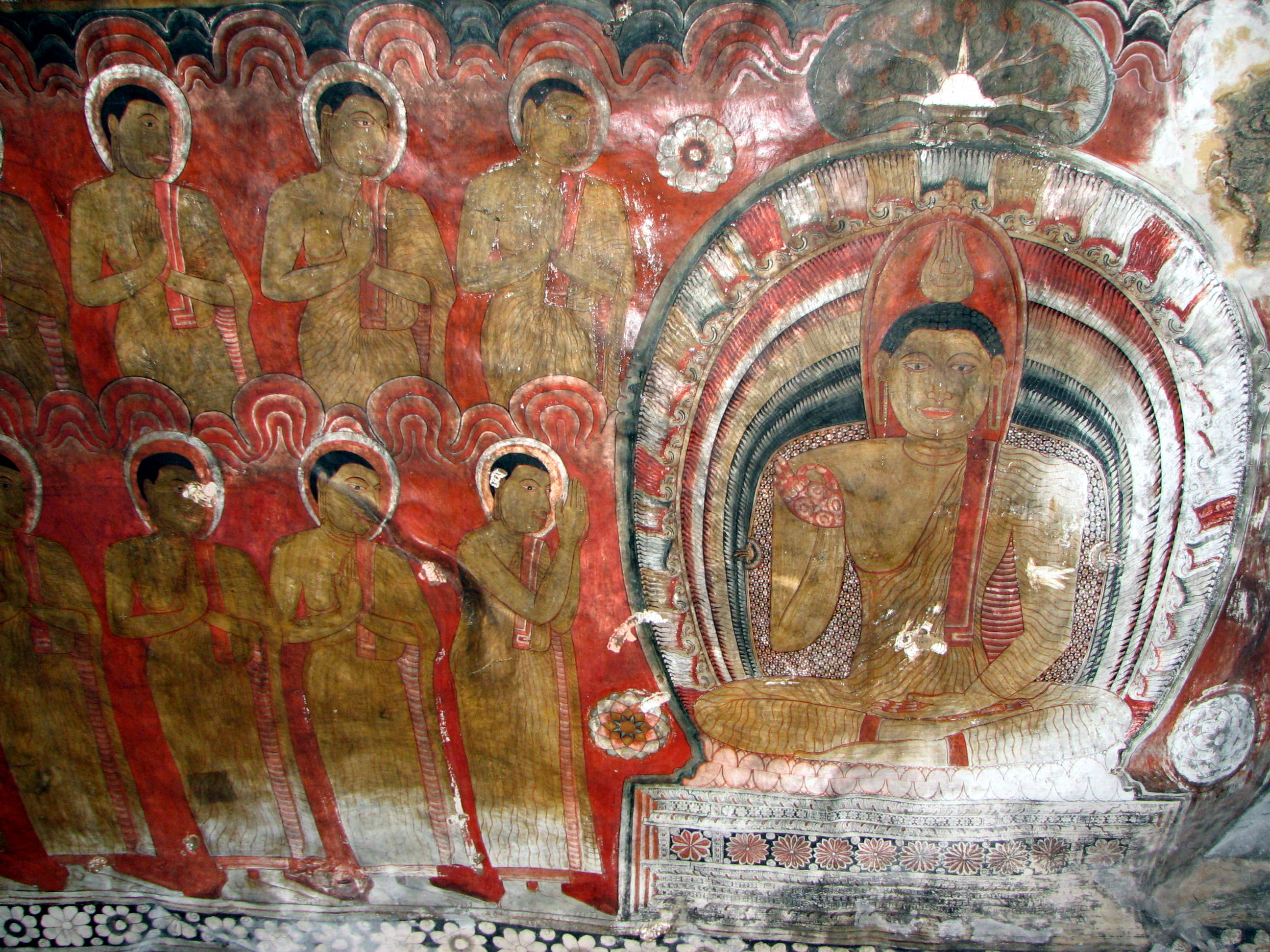 Buddha painting in Dambulla cave temple, Sri Lanka